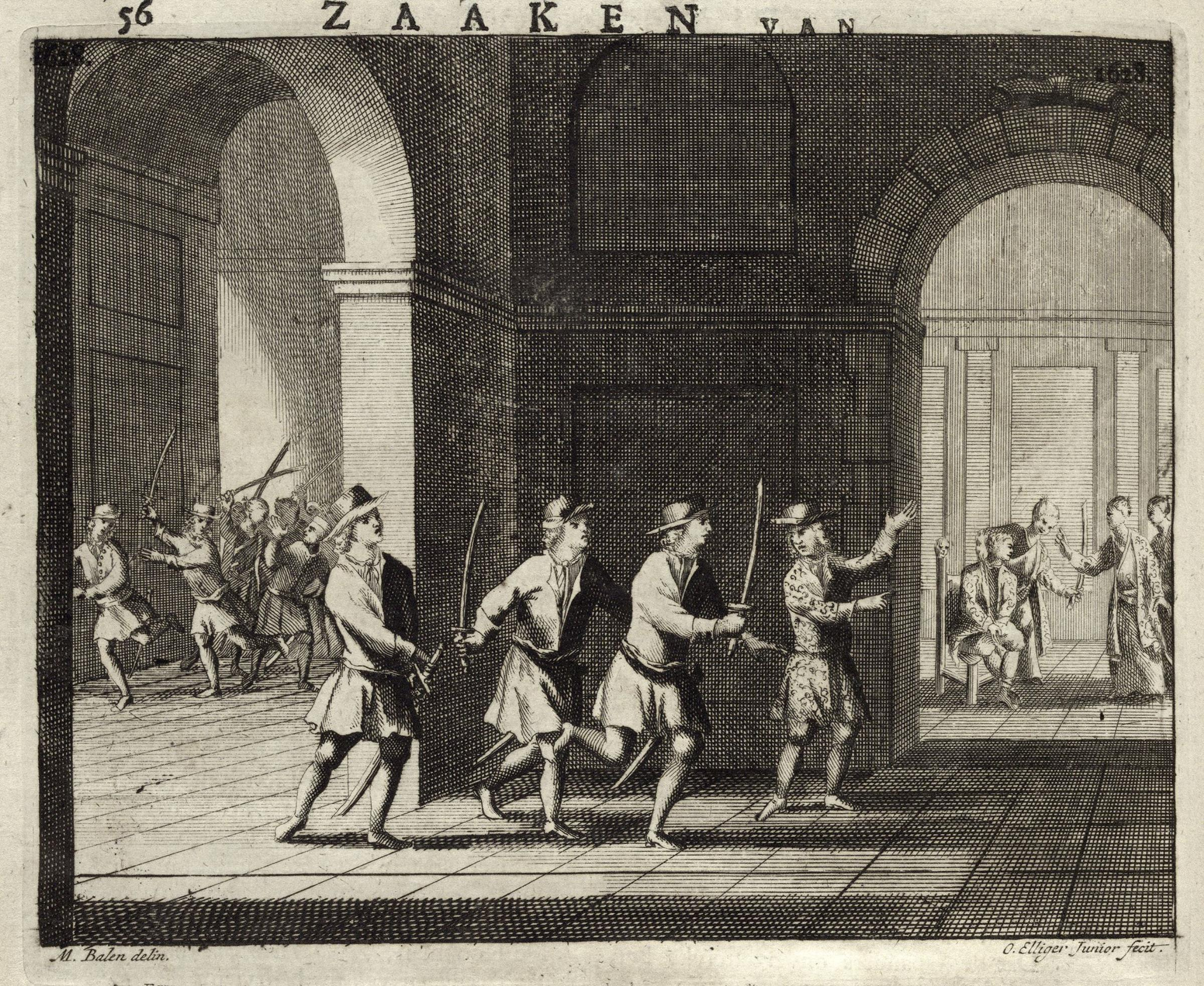 Dutch on Taiwan under attack from the Japanese. The plate is taken from the work 'Oud en Nieuw Oost-Indiën' van François Valentyn. After conflict with Japanese traders on Formosa, Nuyts was kidnapped and taken to Japan, where he remained a prisoner for several years.